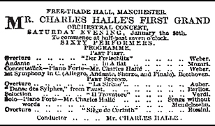 Charles Hallé's advertisement for his first concert with his orchestra in Manchester, 1858. Scanned from The Manchester Guardian, 21 January 1858, p. 1. Public domain.